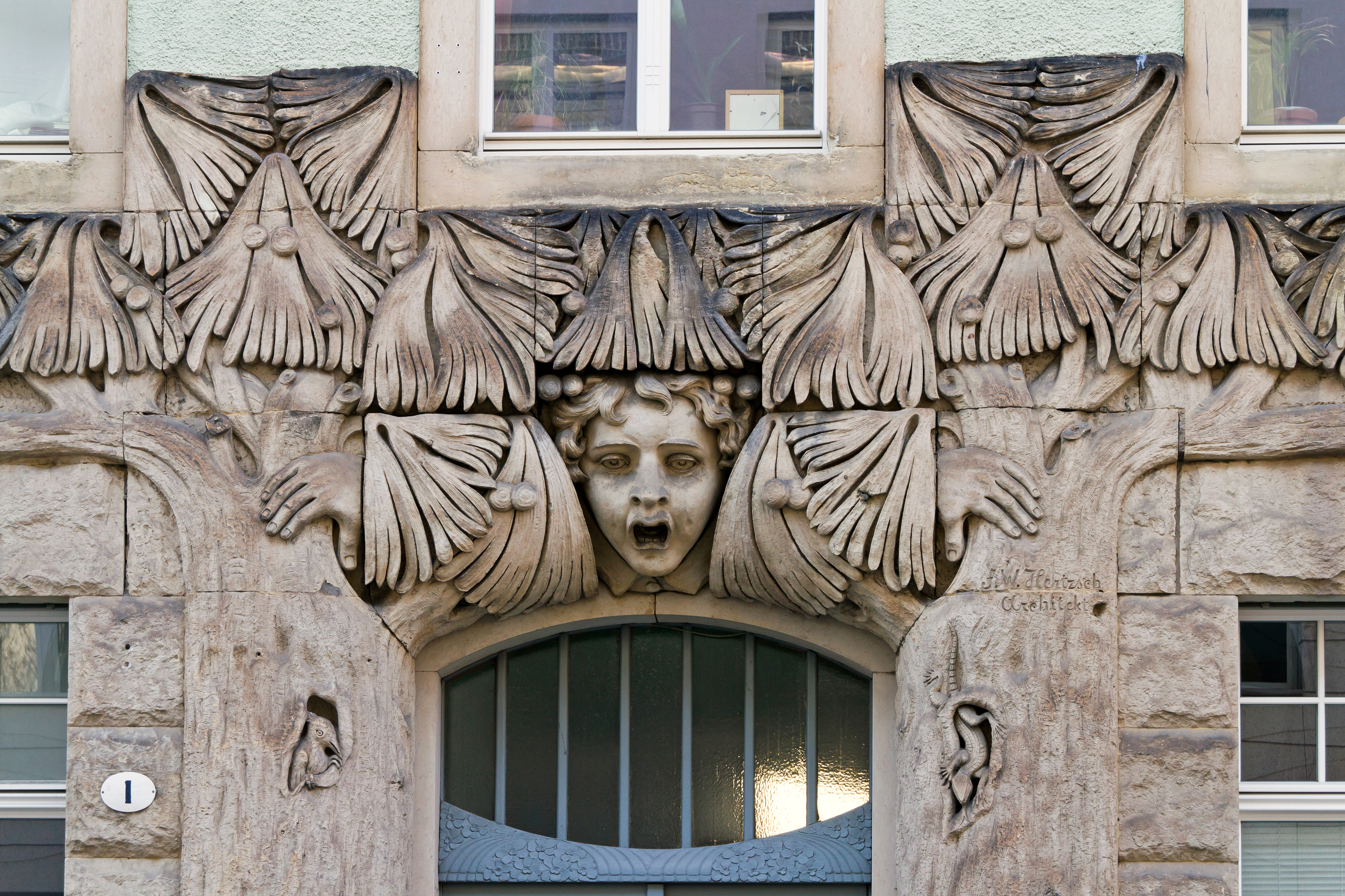 Katharinenstraße 1 residential house